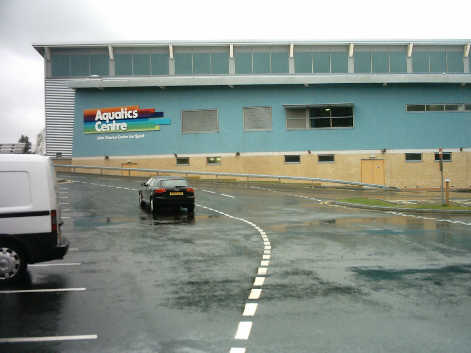 Aquatics Centre at the South Leeds Stadium